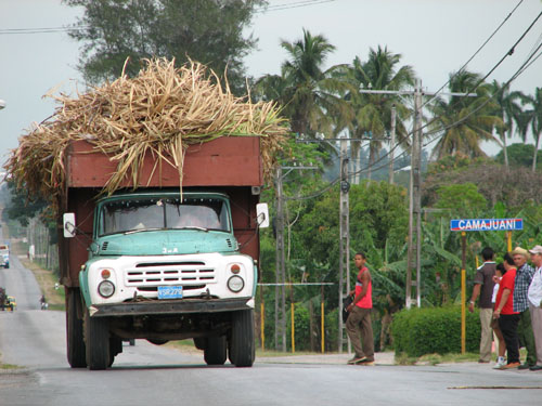 Sugar cane truck in Camajuaní, Cuba. Credits Wilder's stock